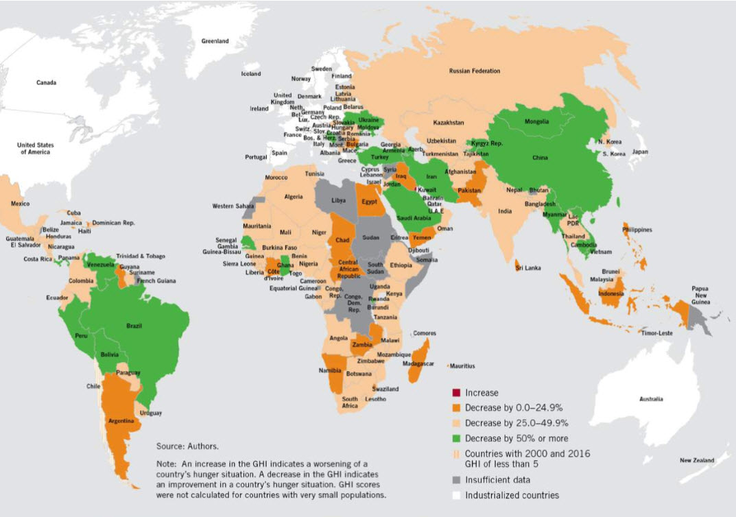 Map of the Global Hunger Index Scores 2016